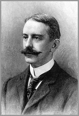 Federick George Jackson (1860—1938), british polar explorer